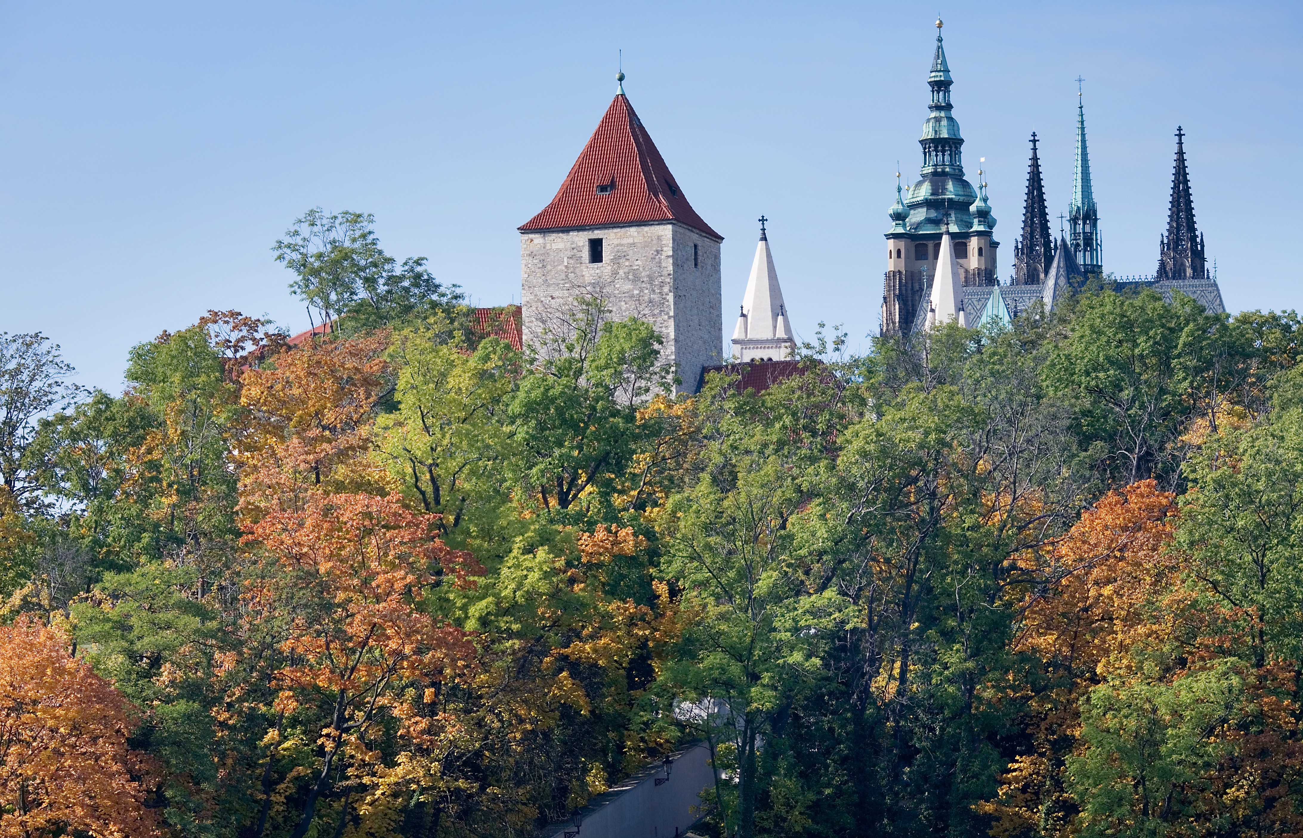 View of the Castle through a forest, Prague